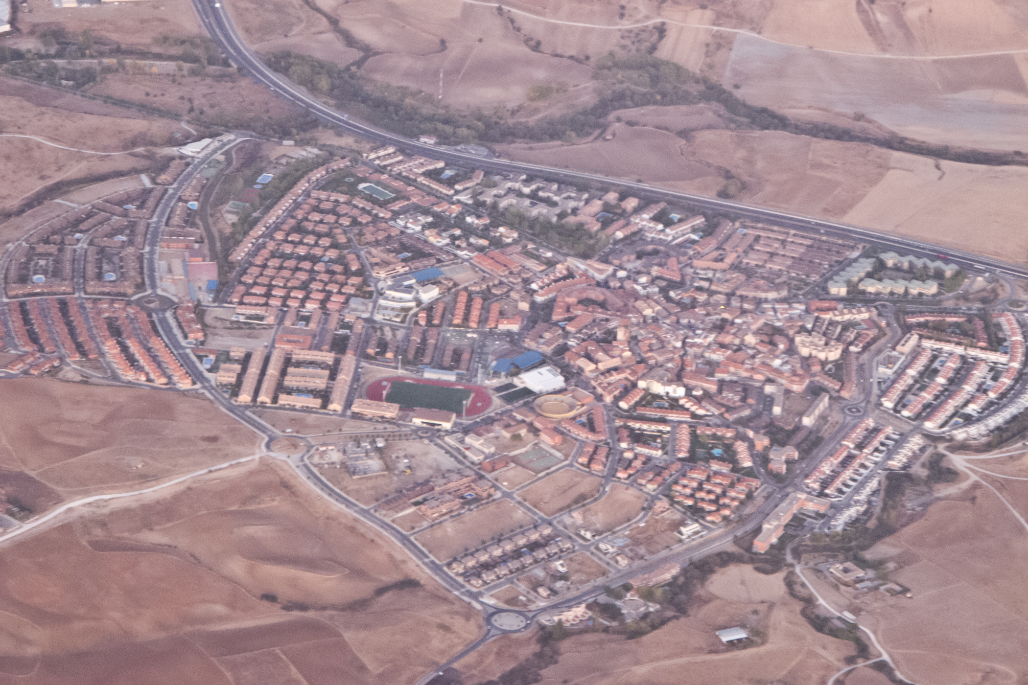 Aerial view of San Agustín del Guadalix, Community of Madrid, Spain.